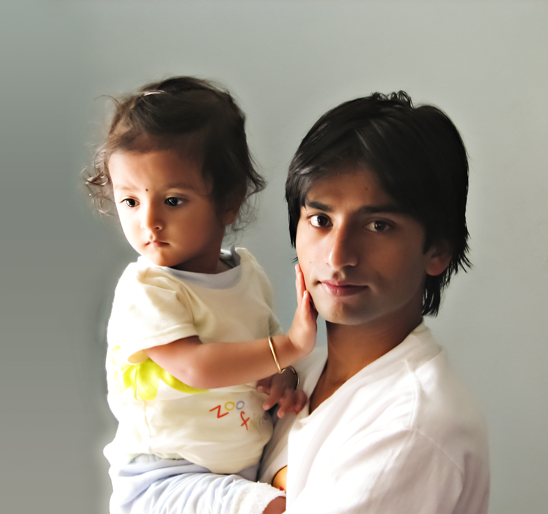 Uncle and Nephew from Thapa family of Nepal; probably Khas Kshatriya Thapa due to Caucasoid/Aryan look